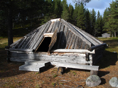 Sami log hut at Koppsele, Malå. Last used Sami log hut, abandoned around 1900.